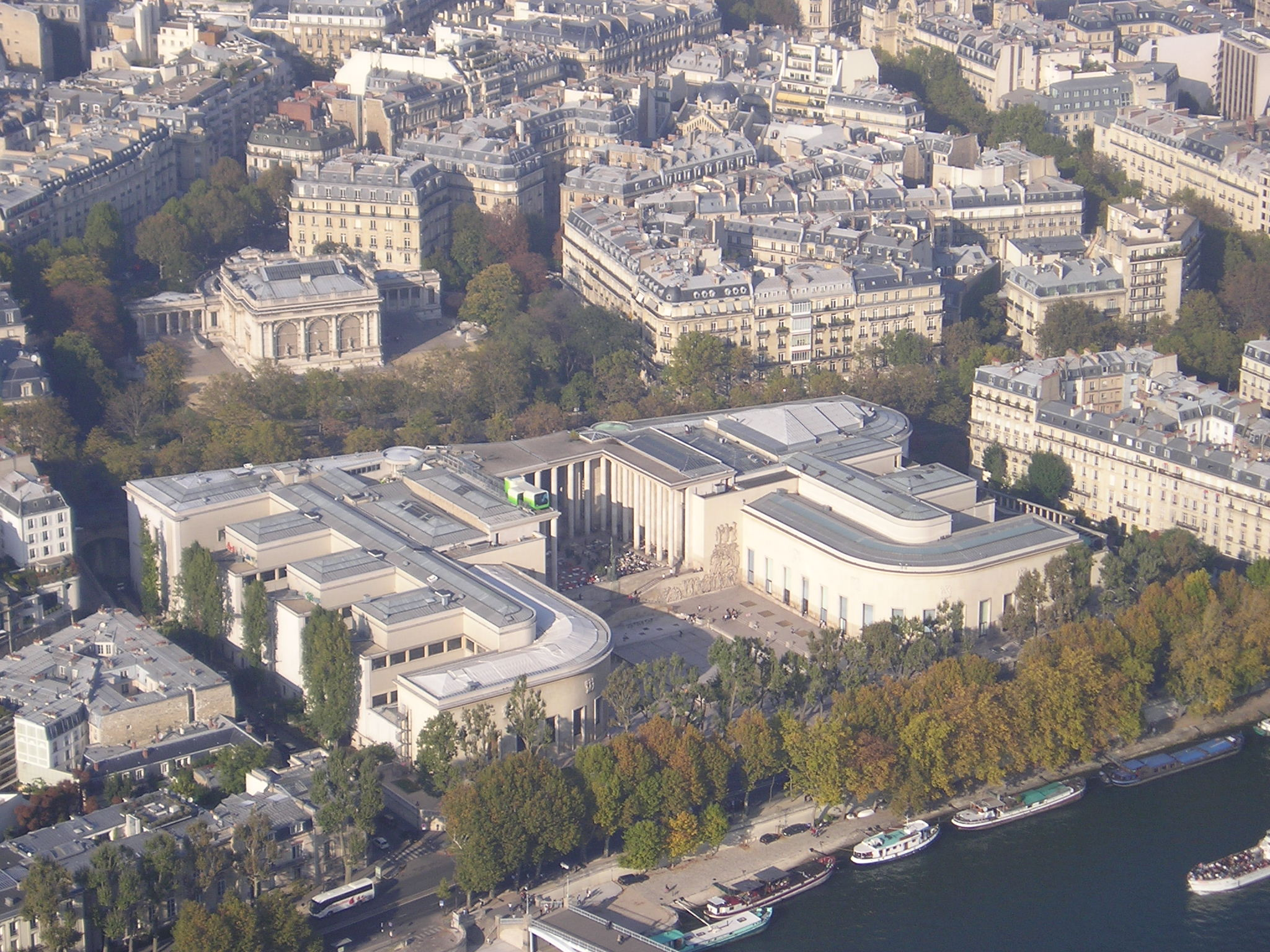 The Palais de Tokyo (modern art museum) taken from the Eiffel tower, Paris. Behind is the Palais Galliera.